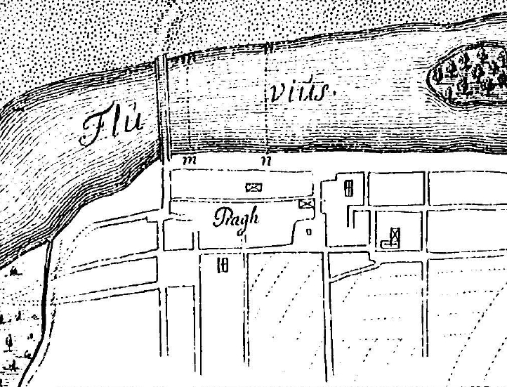 Praga, currently Warsaw, 1705